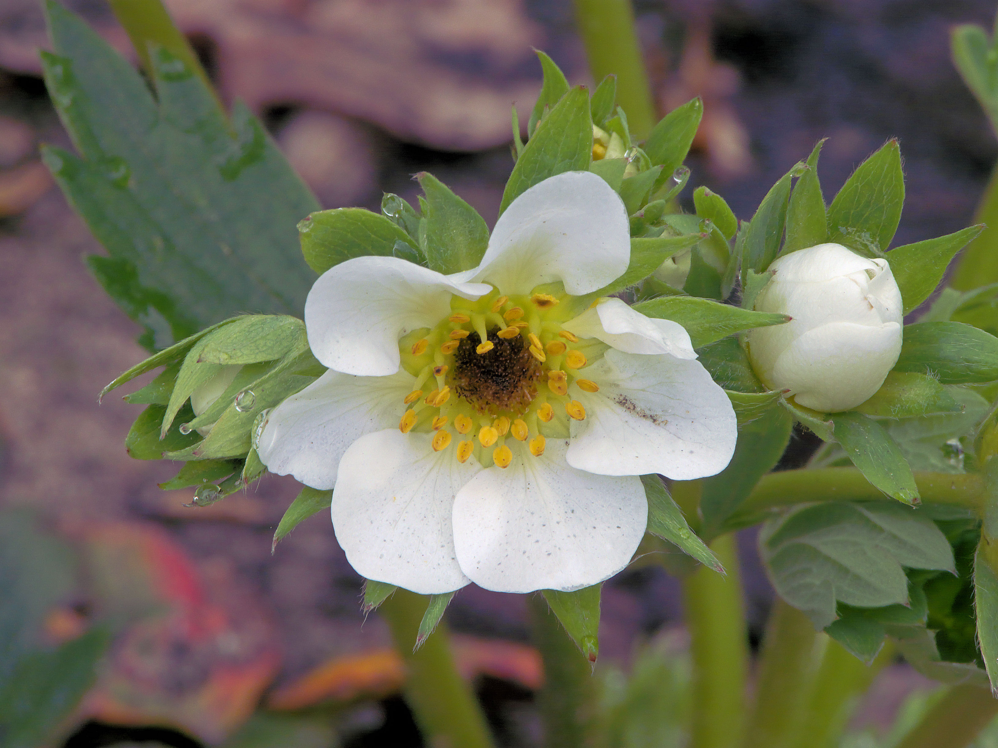 Frost damage of strawberry variety Lambada